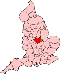 Own work based upon :Image:EnglandLeicestershire.png